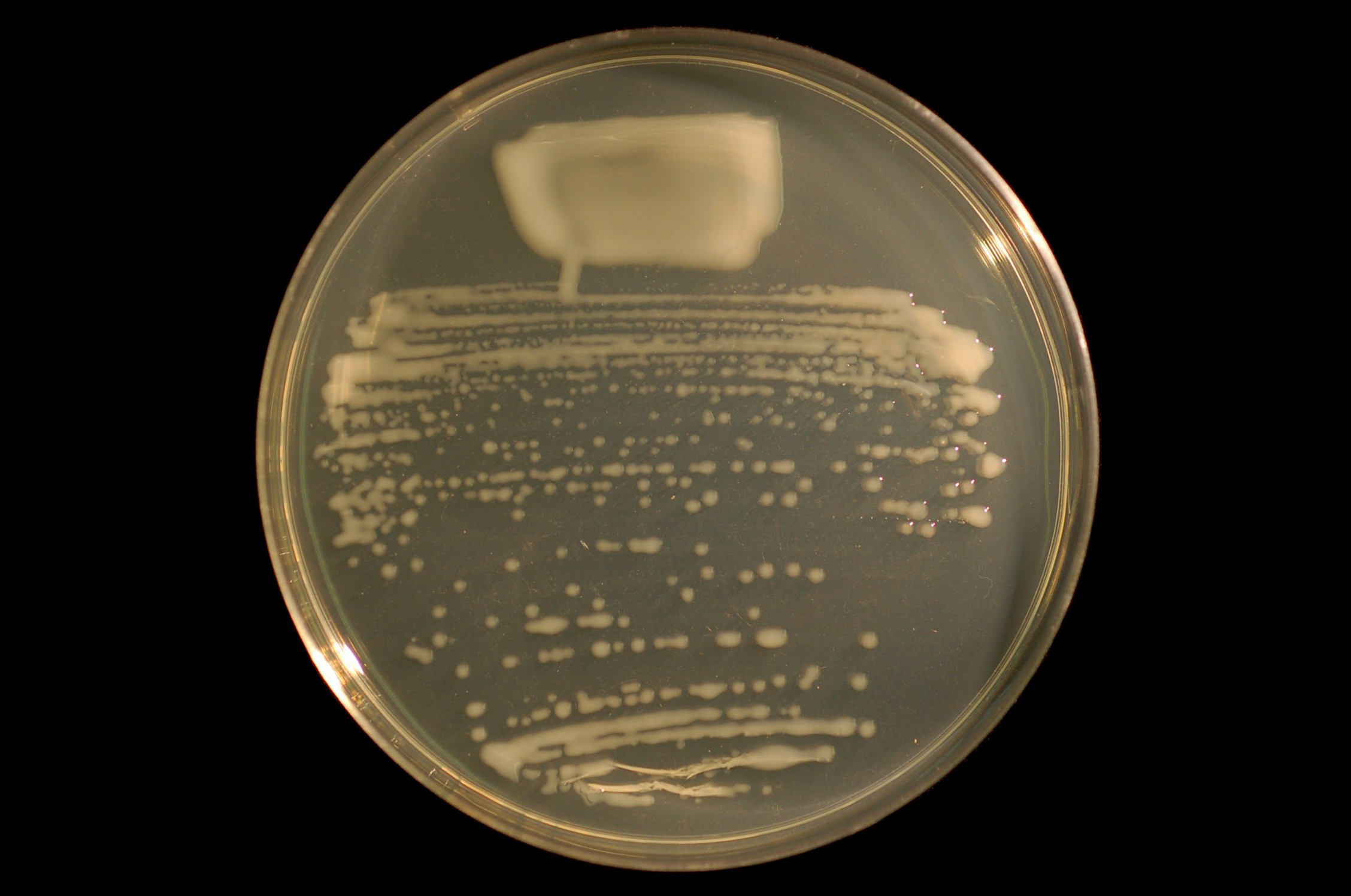 The bacterium Mesorhizobium loti strain NZP2037 streaked to single colonies on Tryptone-Yeast Extract (TY) agar.